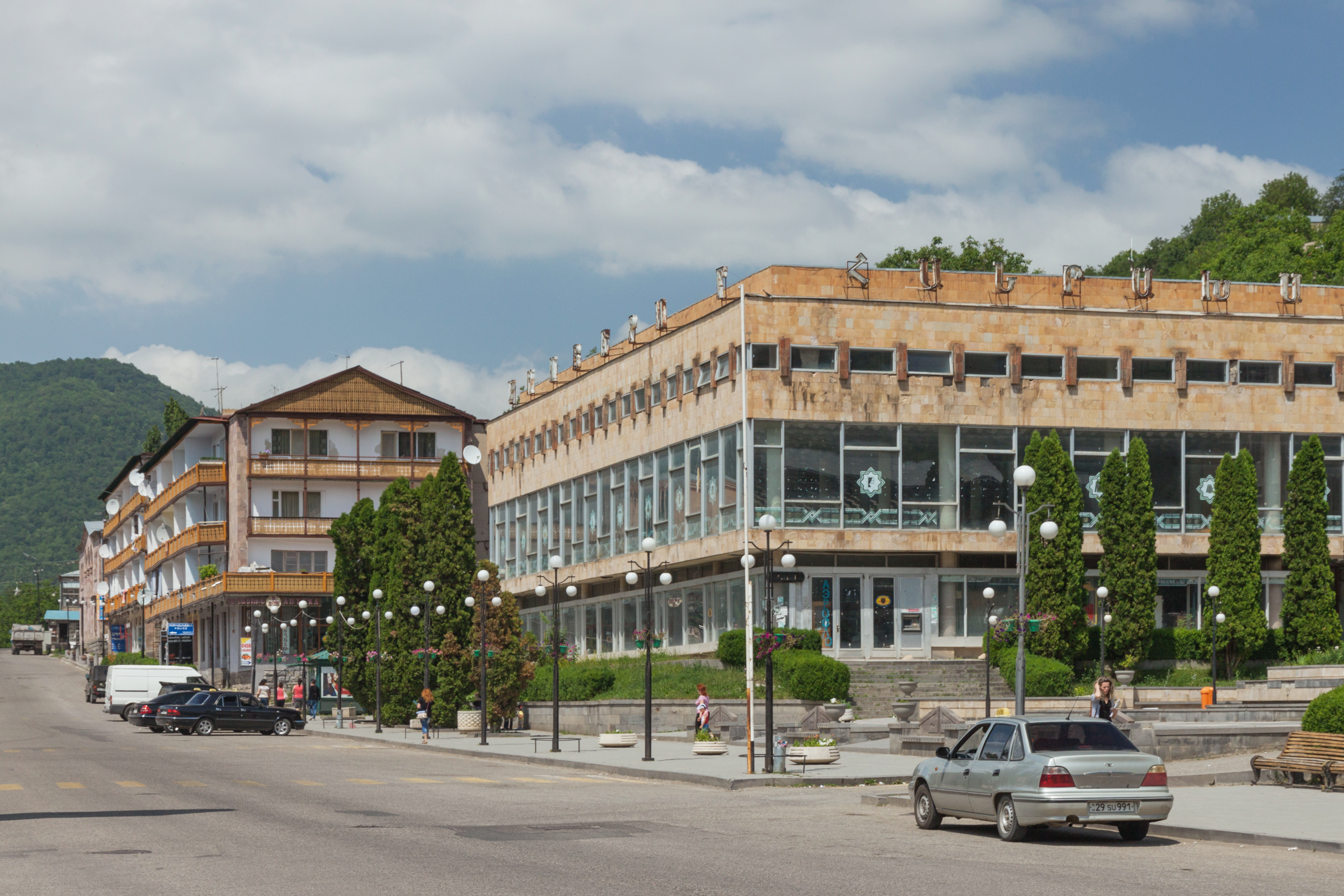 Buildings on Miasnikyan Street. Dilijan, Tavush Province, Armenia.